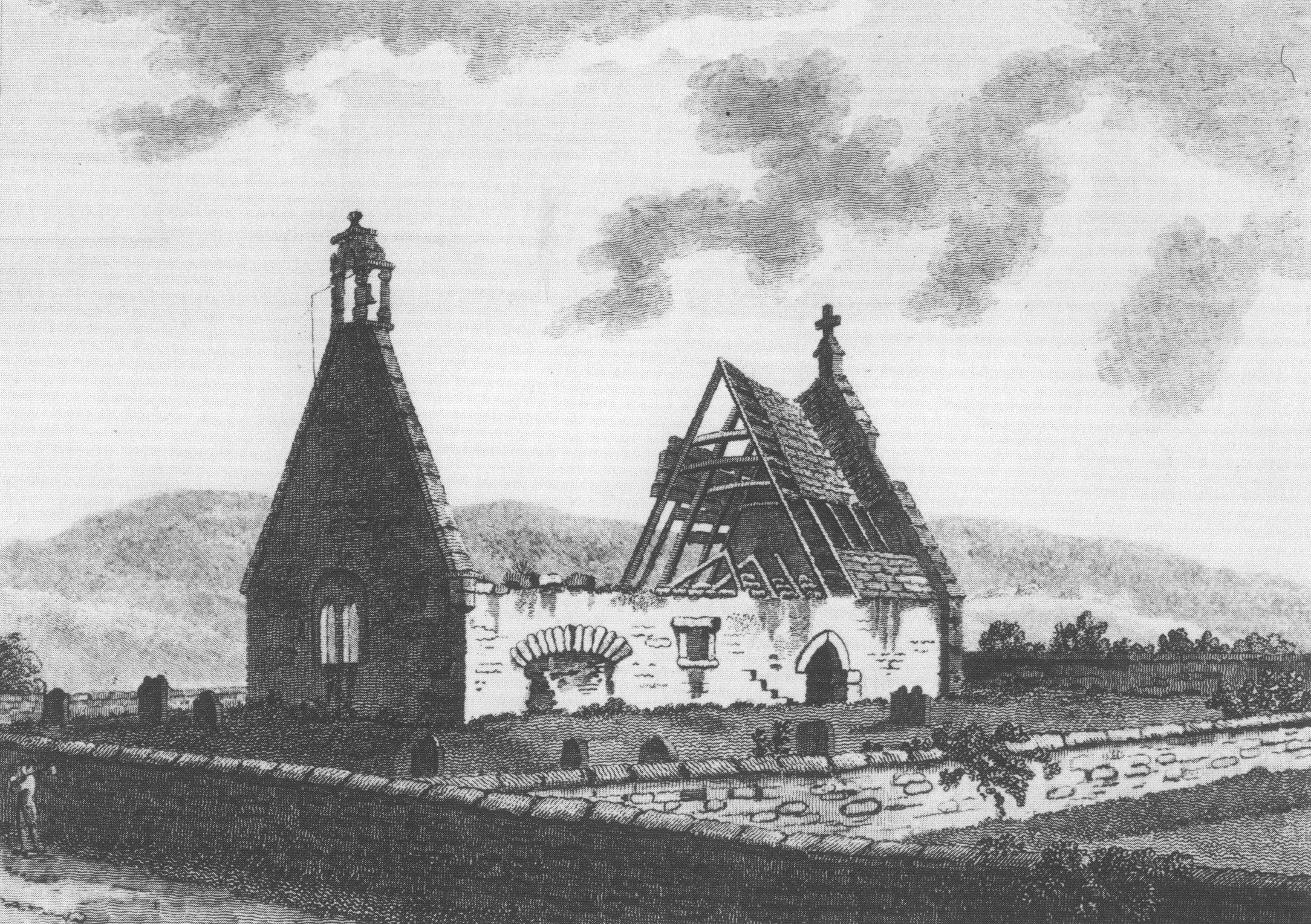 Engraving by Capt. Francis Grose, made at the request of the poet Robert Burns, in return for which Burns wrote the poem Tam o' Shanter to accompany the illustration. Grose wrote, "This church is also famous for being the place wherein the witches and warlocks used to hold infernal meetings, or sabbaths, and prepare their magical unctions; here too they used to amuse themselves with dancing to the pipes of the muckle-horned Deel. Diverse stories of these horrid rites are still current: one of which my worthy friend Mr. Burns has here favoured me with in verse."